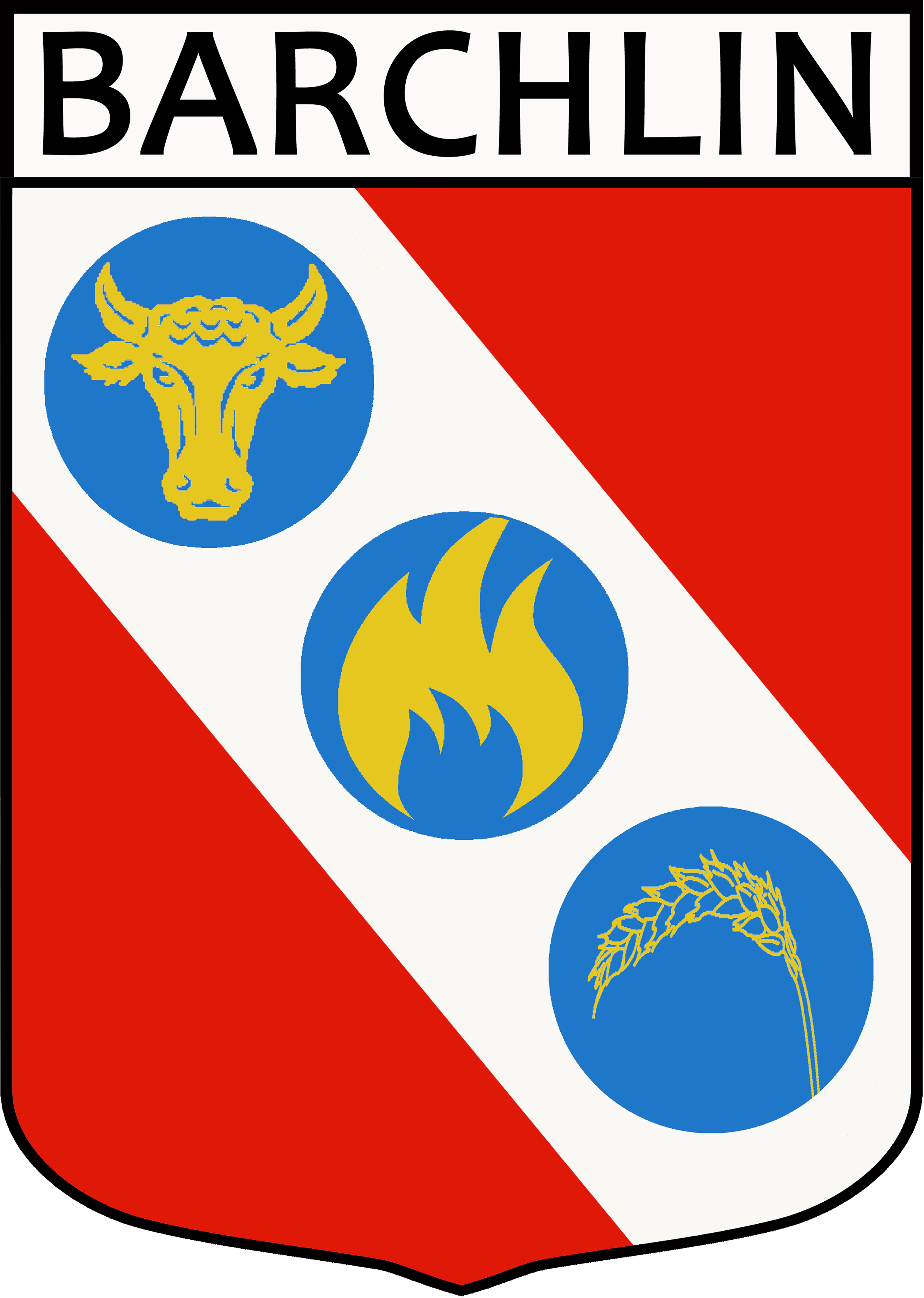 Unofficial Blazon of Barchlin